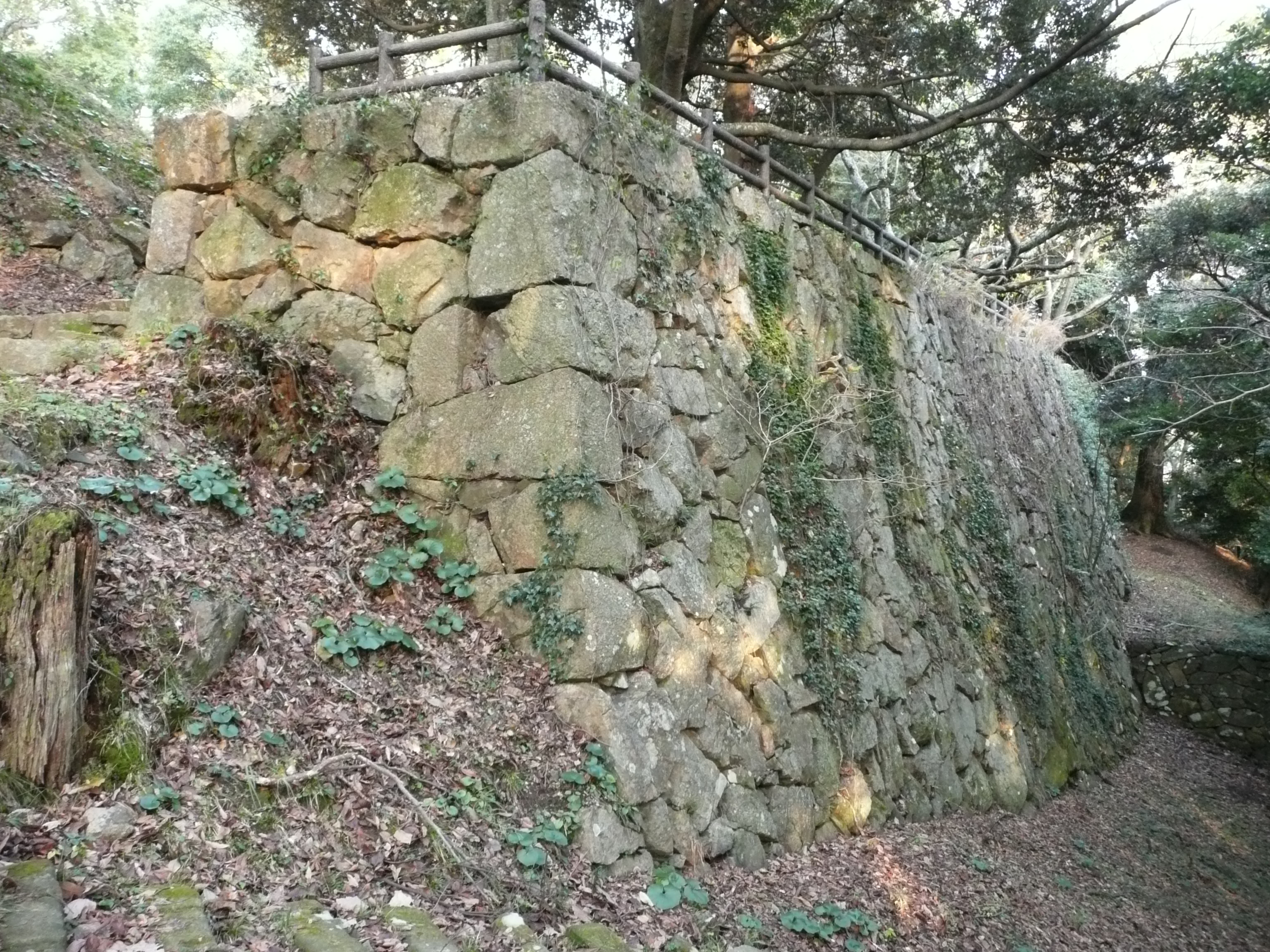 三の丸の石垣